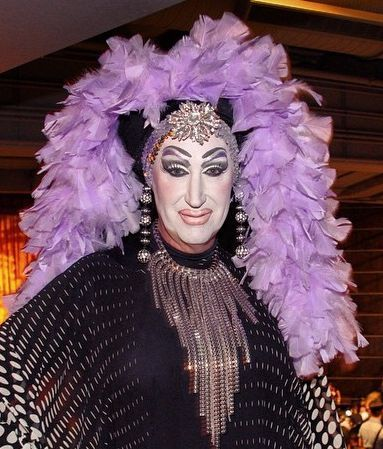 Sister Roma at Mr. Leather 2015